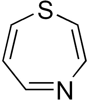 chemical structure of 1,4-thiazepine (thiazepin)